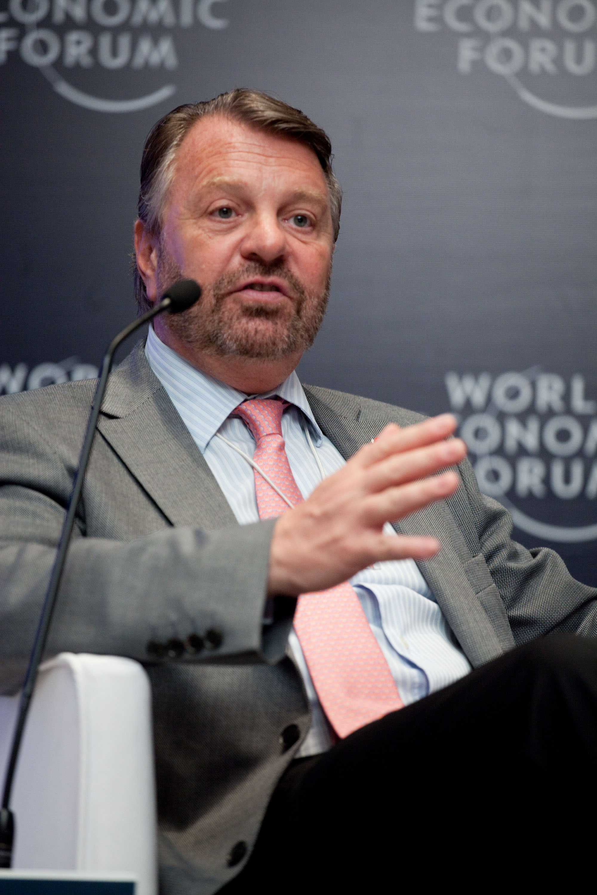 RIO DE JANEIRO/BRAZIL, 29APR11 - Jorge G. Castañeda, Professor, Politics and Latin American and Caribbean Studies, New York University, USA, captured during the World Economic Forum on Latin America in Rio de Janeiro, Brazil, April 29, 2011. Copyright World Economic Forum ( by Bel Pedrosa